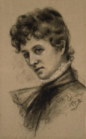 1887 self portrait of Kate Sperrey (7 January 1862-23 April 1893) was a noted portraitist from New Zealand who flourished at the end of the nineteenth century.